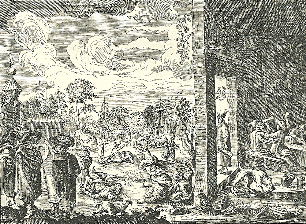 Drinking bout